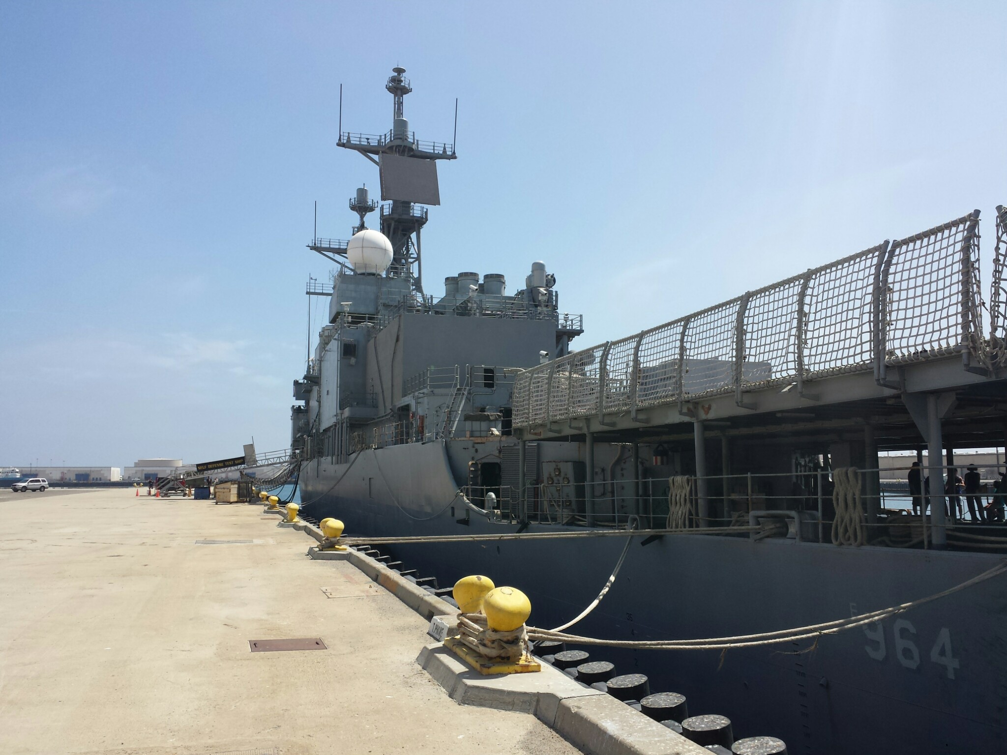 The US Navy Self Defense Test Ship (SDTS) - Formerly the USS Paul F. Foster (DD-964) moored at Naval Surface Warfare Center Port Hueneme, CA